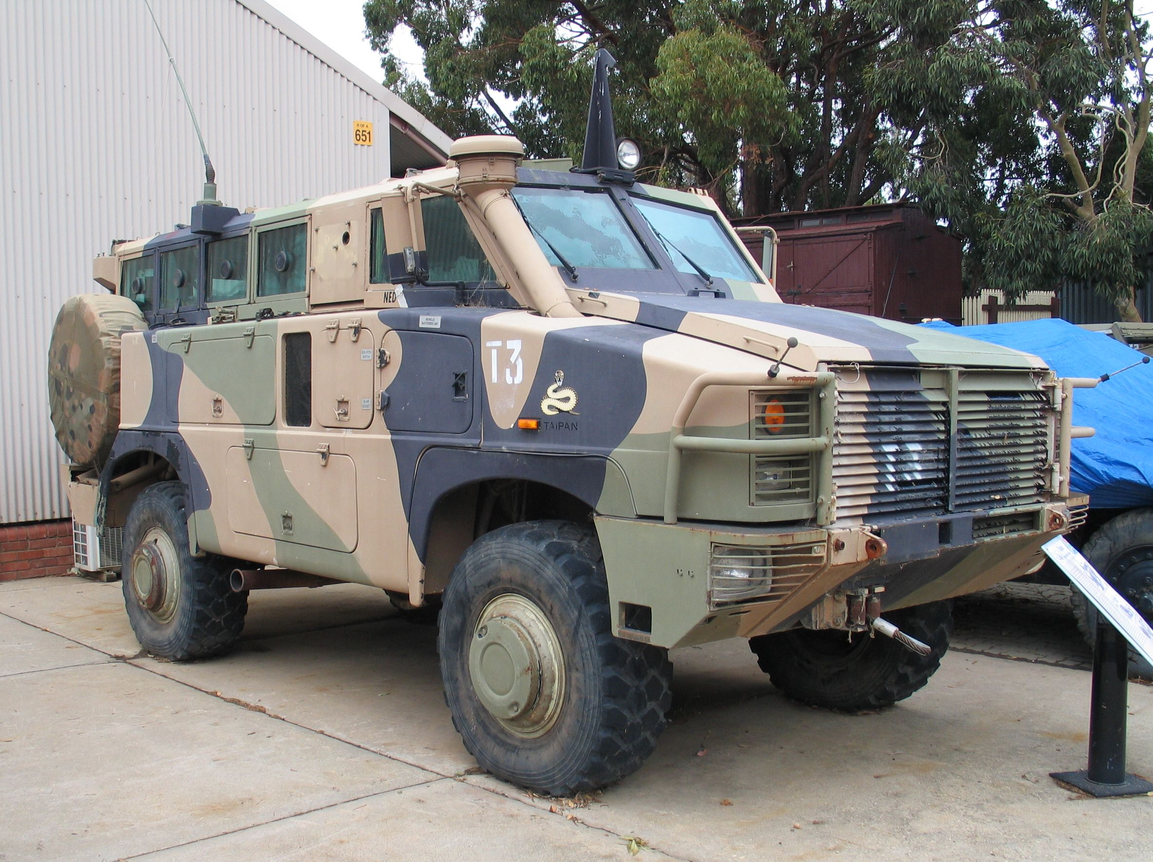 Taipan Infantry Mobility Vehicle in Royal Australian Armoured Corps Tank Museum, Puckapunyal, Australia.